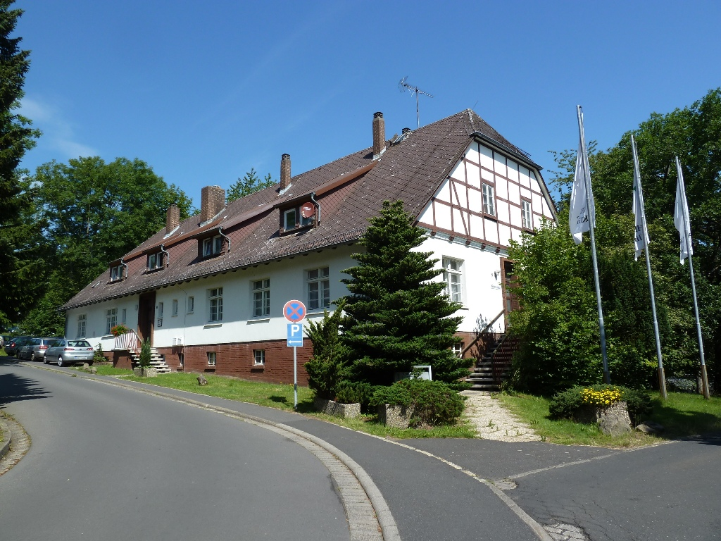 Former Barracks of the Luftwaffe Munitions Depot in the current district of Grebenhain-Oberwald.